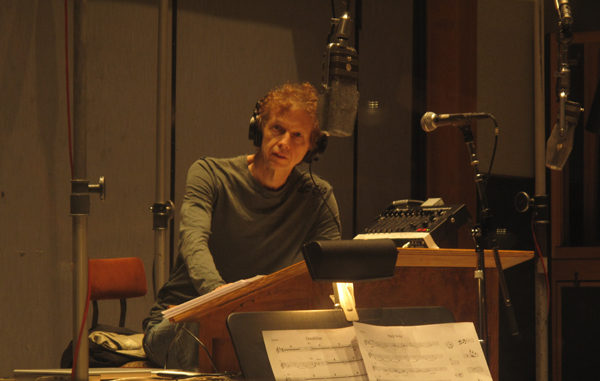 David Campbell conducting in 2009